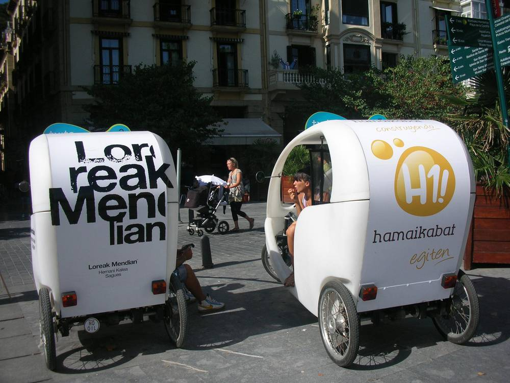 ciclotaxis called 'Txita' in Donostia